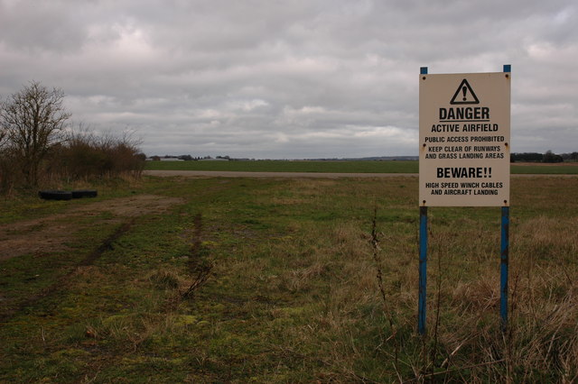 Aston Down Airfield The former World War II RAF Aston Down is now used by a gliding club. Here the airfield is viewed from its southern boundary.